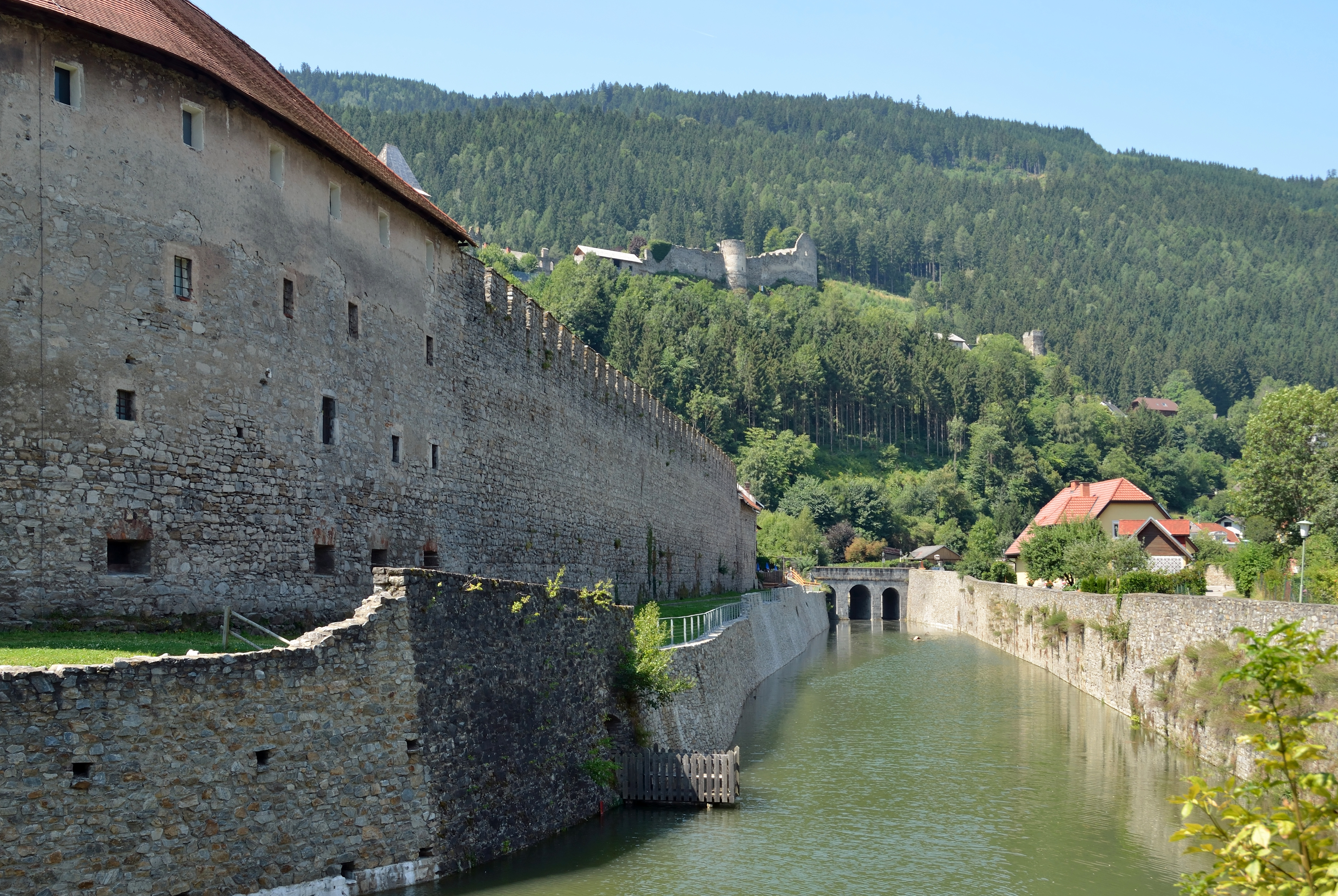 Granary (left) and city moat in Friesach, Carinthia